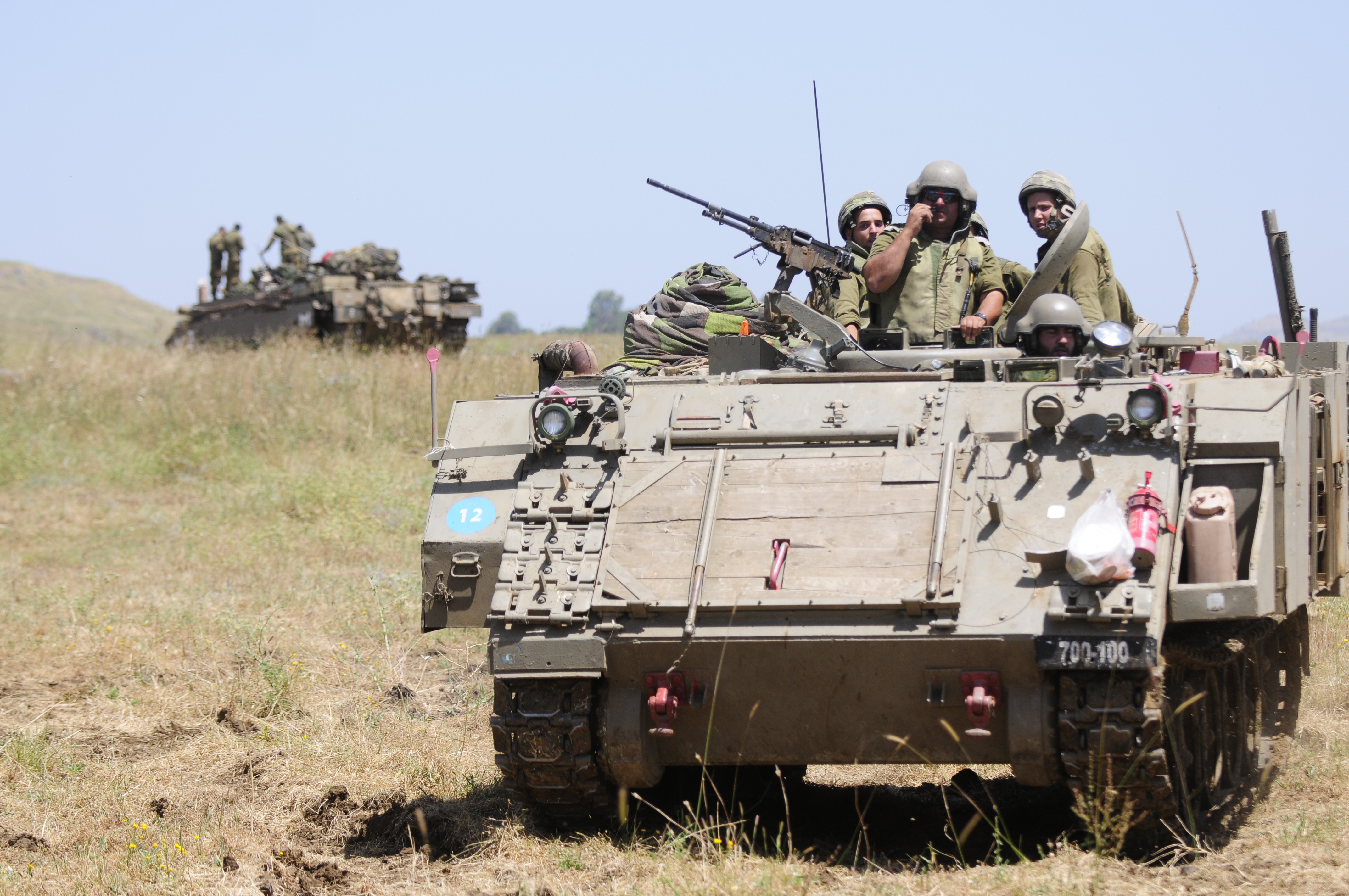 May 31, 2011 IDF's Combat Engineering Corps conducts training in the southern part of Israel, in order to strengthen the security grip on one of the country's largest land borders. Featured as Photo of the Day on January 8th, 2012. The Israel Defense Forces Facebook The Israel Defense Forces blog Follow us on Twitter